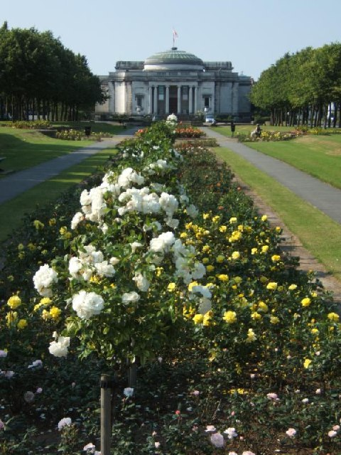 The Lady Lever Art Gallery in Port Sunlight, Wirral, England.